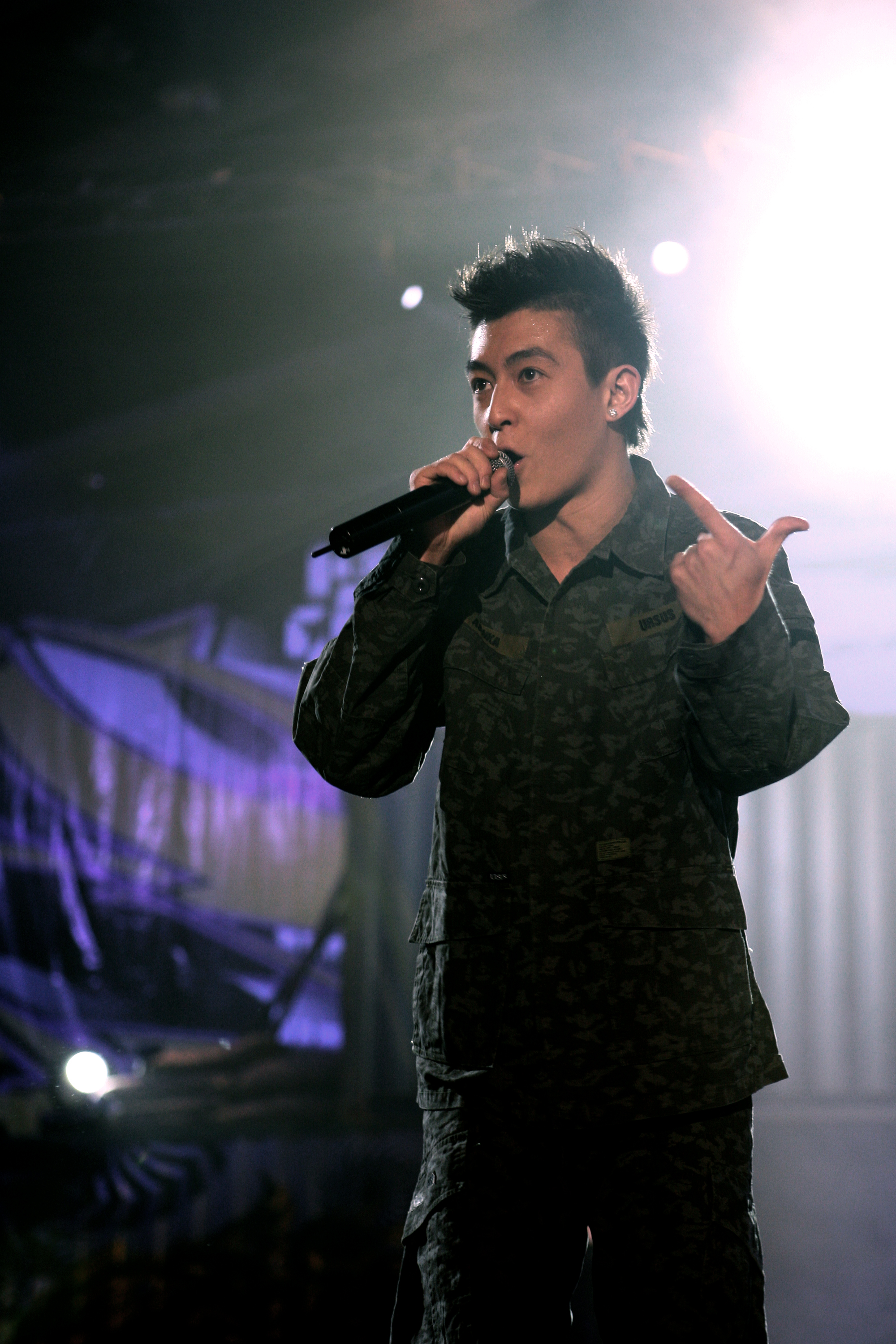 Edison ChenBân-lâm-gú: Tân Kuàn-hi.陳冠希